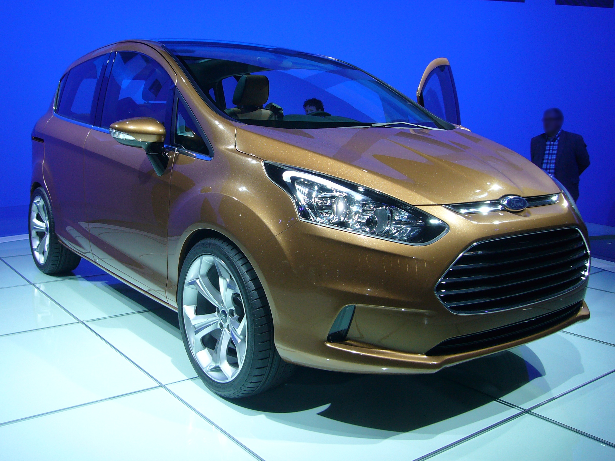 Ford B-MAX Concept at AutoRAI Amsterdam 2011